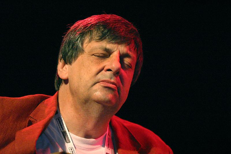 Philip Catherine